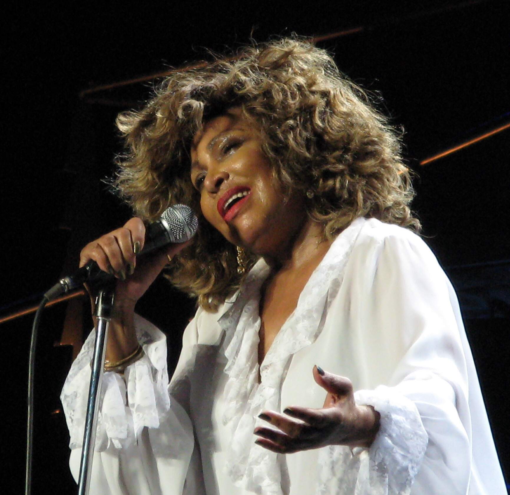 Tina Turner NIA Birmingham